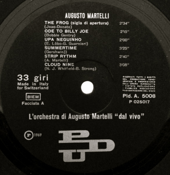 Label of the Italian Album "L'Orchestra di Augusto Martelli dal Vivo"